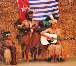 Photo of the Lani Singers